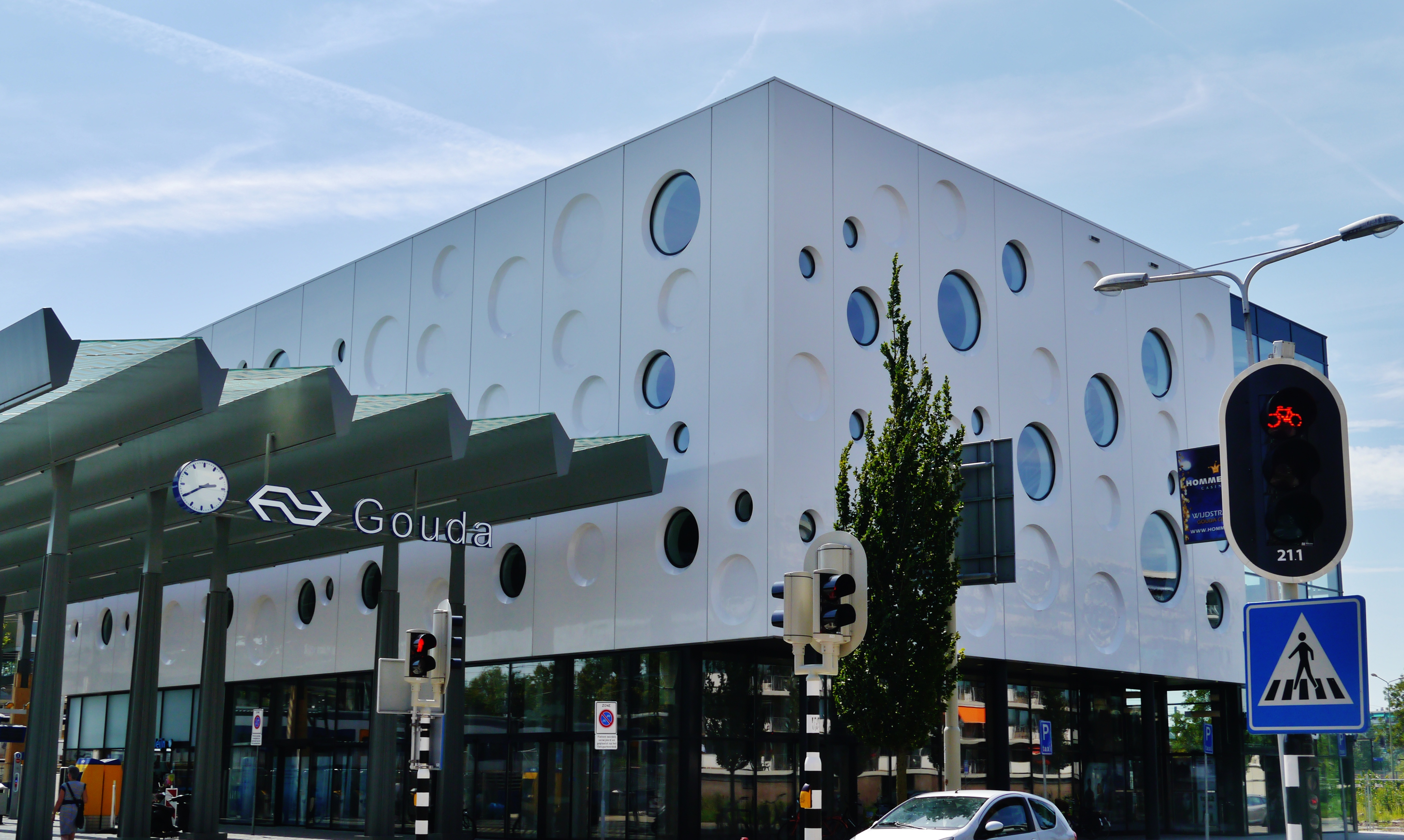 White building is Cinema Gouda, next to Gouda railwaystation, Province of South Holland, Netherlands